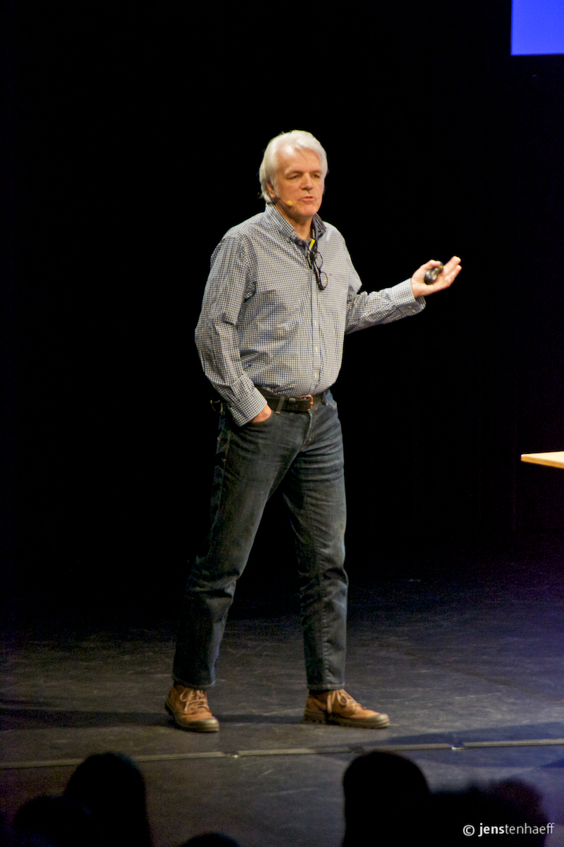 Petr van Blokland speaking at the TYPO Berlin 2014 conference.